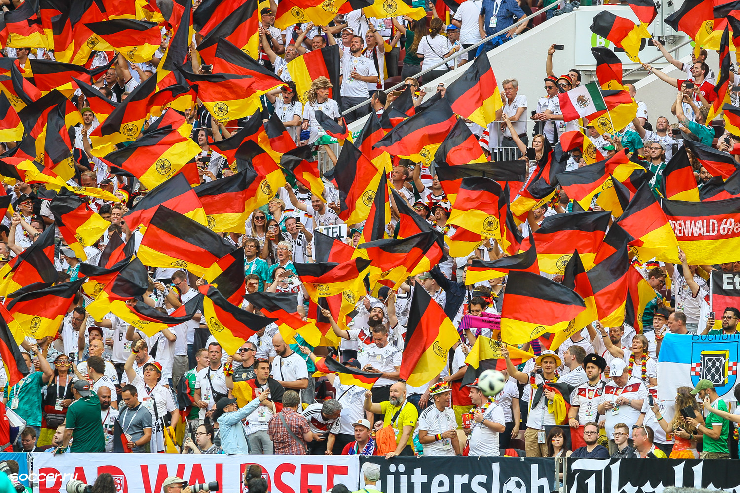 Germany vs Mexico match